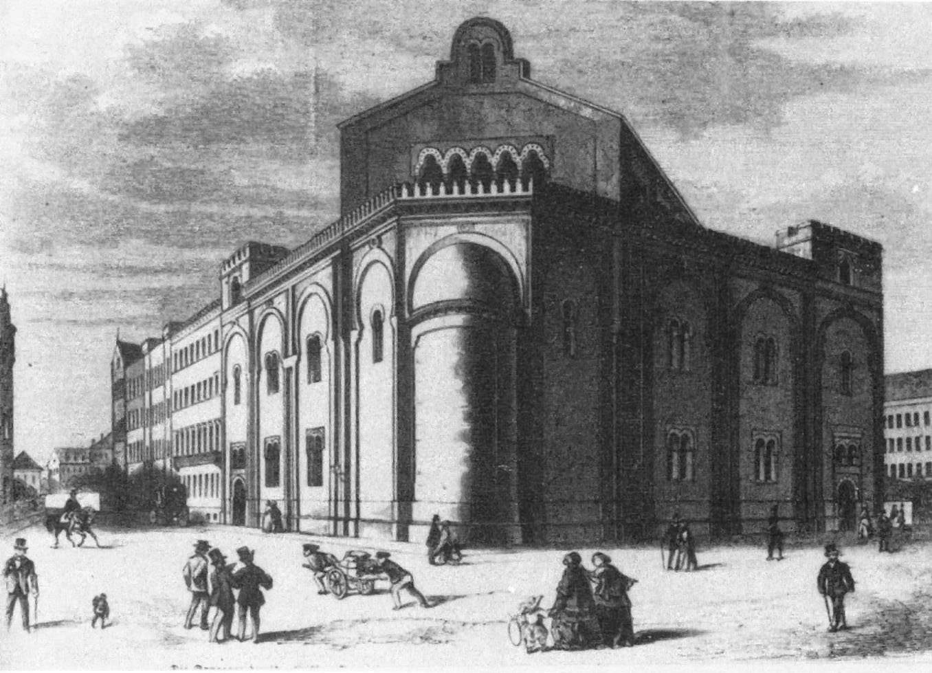 Old synagogue of Leipzig, Gottschedstrasse 3, built in 1854/55 by Otto Simonson, destroyed by the nazis in 1938, image dating from 1850